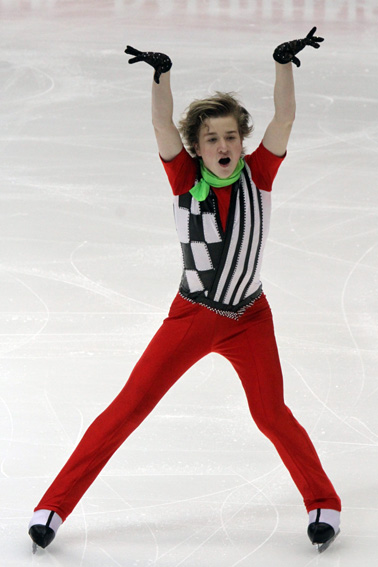 Misha Ge at the 2011 Four Continents Championships.